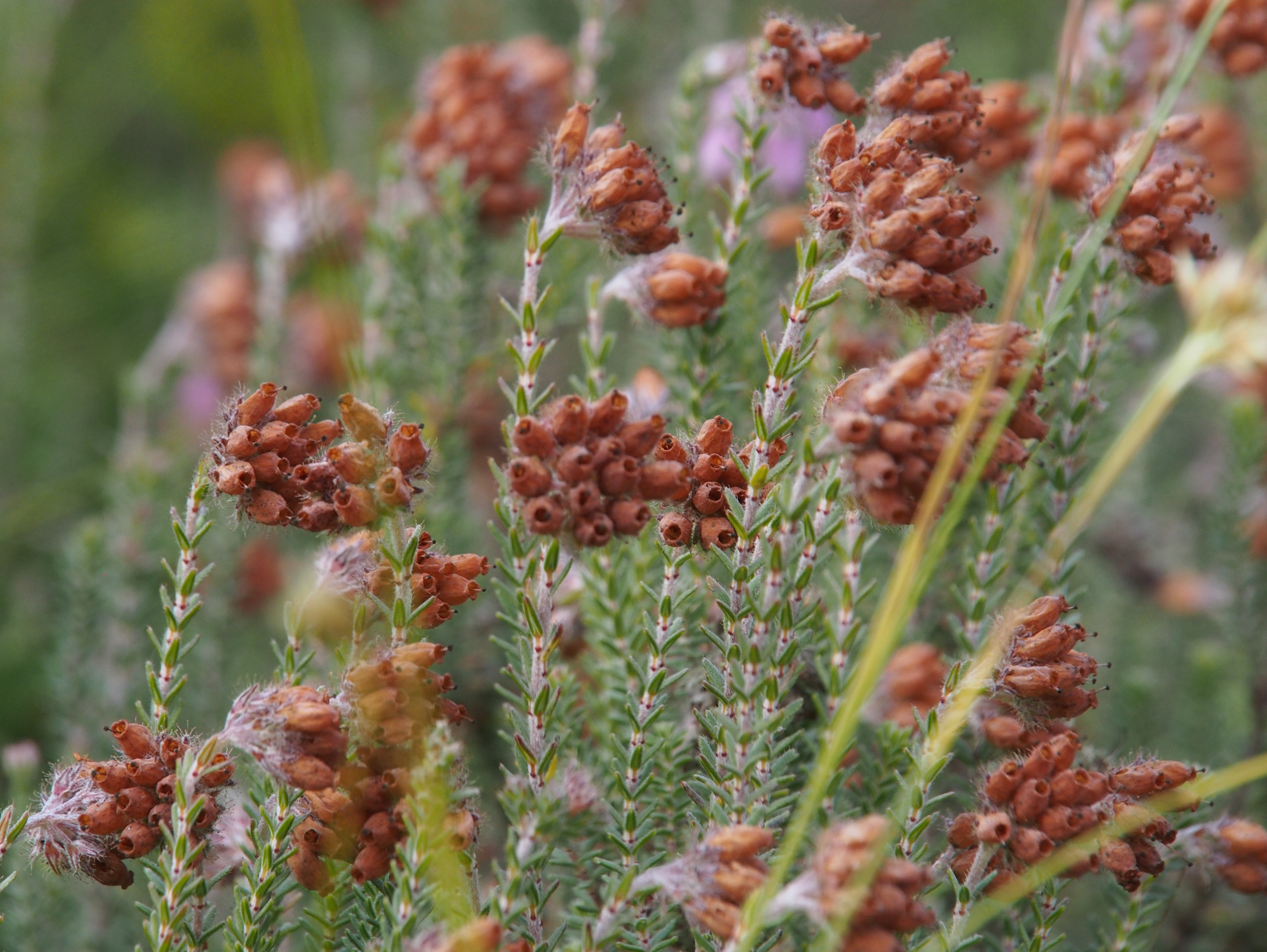 Cross-leaved Heath (Erica tetralix), "Southern Heath Nature Park", Germany